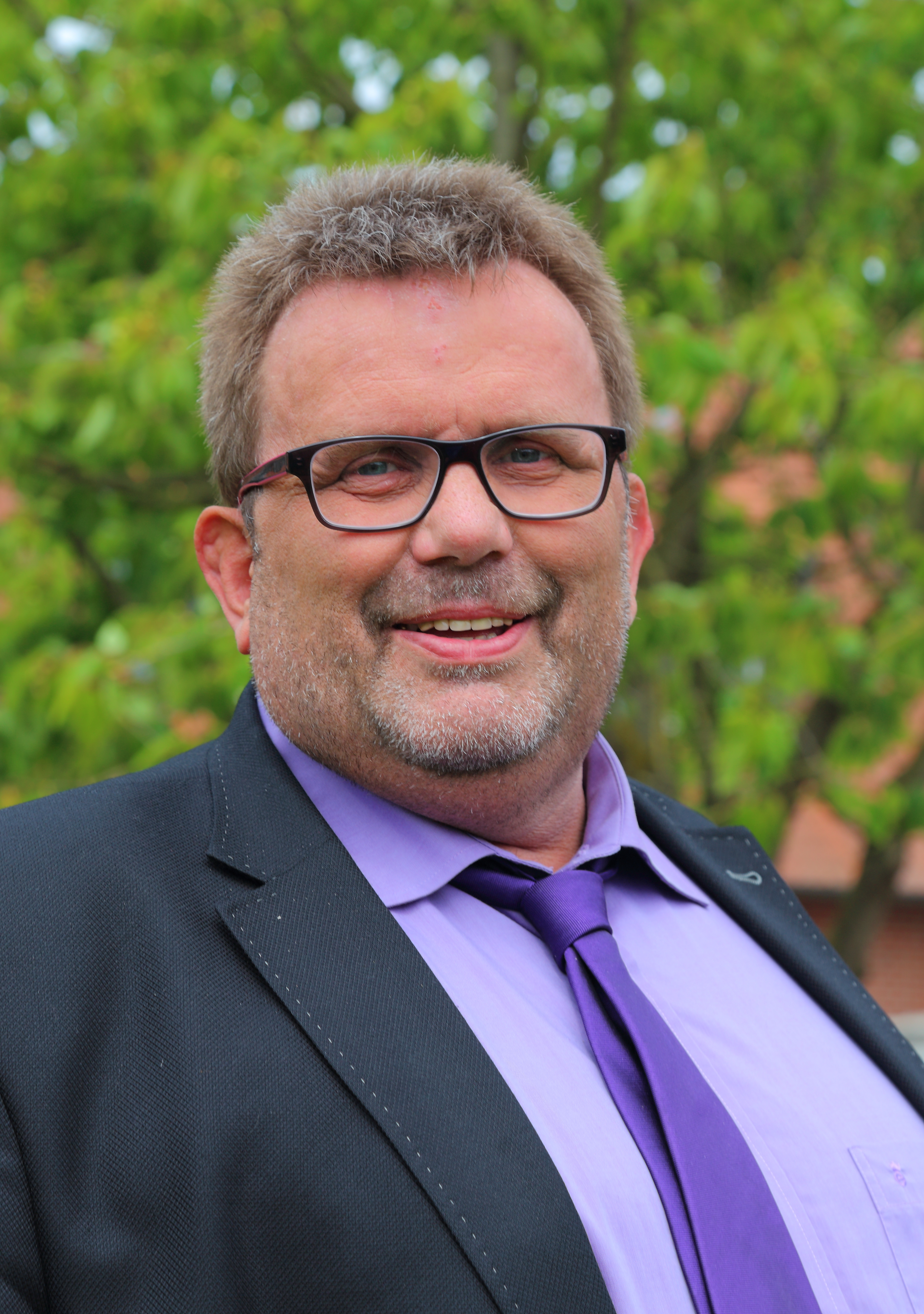 Peter Vennemeyer, mayor of Greven, Kreis Steinfurt, North Rhine-Westphalia, Germany.